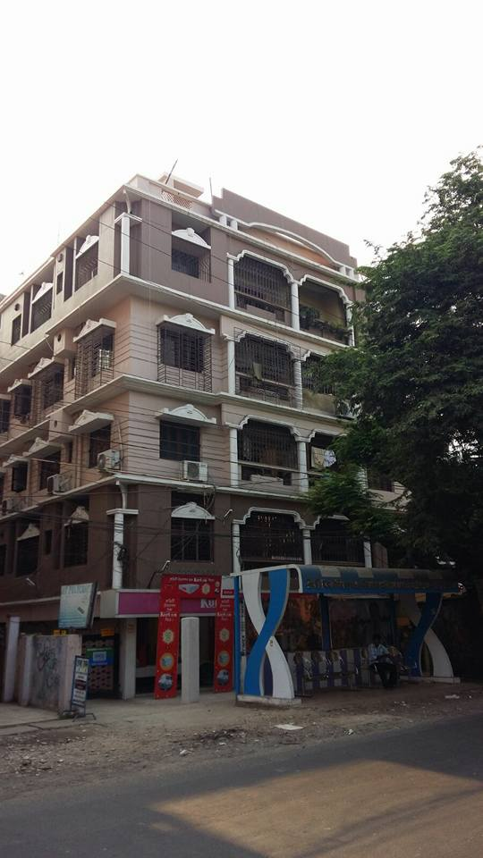 130 Garia Main Road, Tetultala, Garia, Kolkata - 700084